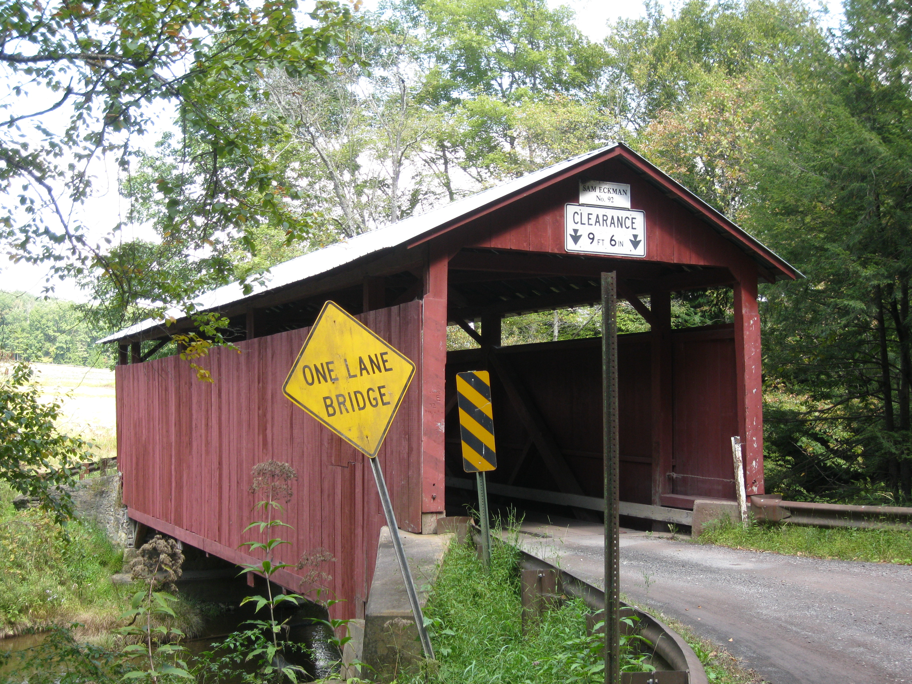 Sam Eckman Covered Bridge No. 92 built in 1876 over Little Fishing Creek between Greenwood and Pine Townships in Columbia County, Pennsylvania in the United States.